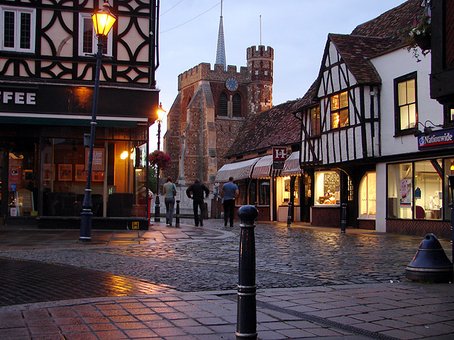 St Mary's Church, Hitchin An early evening view from the town square.